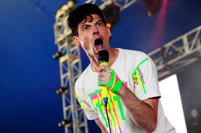 Bluejuice performing at Big Day Out Festival 2012.